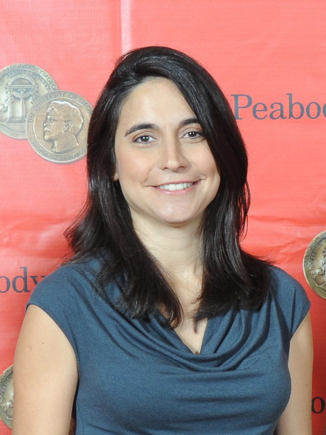 PHOTO CREDIT: ANDERS KRUSBERG / PEABODY AWARDS 72nd Annual Peabody Awards Luncheon Waldorf-Astoria Hotel May 20, 2013